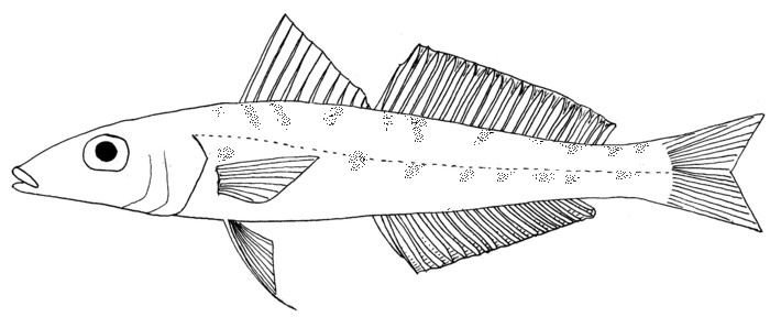 Hand drawn diagram of Sillago intermedius, the Thai whiting. Done using pen, based on Wongratana, 1977